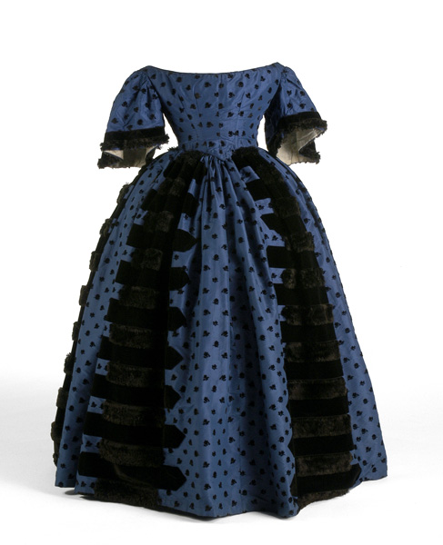 Ballgown of blue silk with black velvet trim.